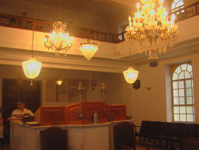 The Synagogue in Volos.Credit: Courtesy of Arie Darzi to memorialize the Jewish community in Greece